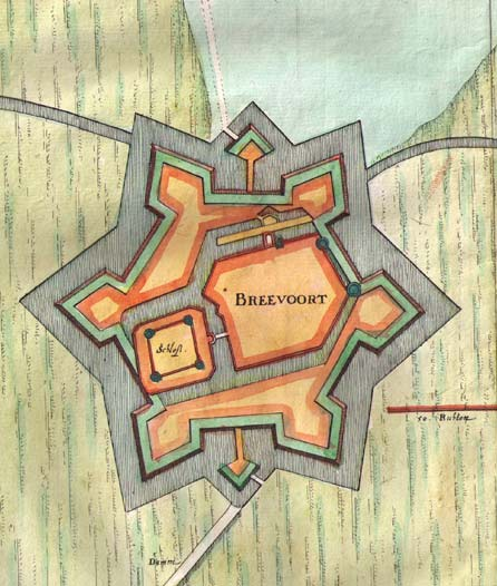 The city of Bredevoort renewed after 1597 by prince Maurits